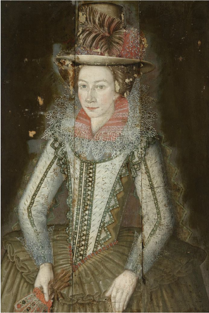 three-quarter length, standing in a white and green embroidered dress, with green skirts and a red and lace collar, wearing a feathered high hat, a fan in her right hand